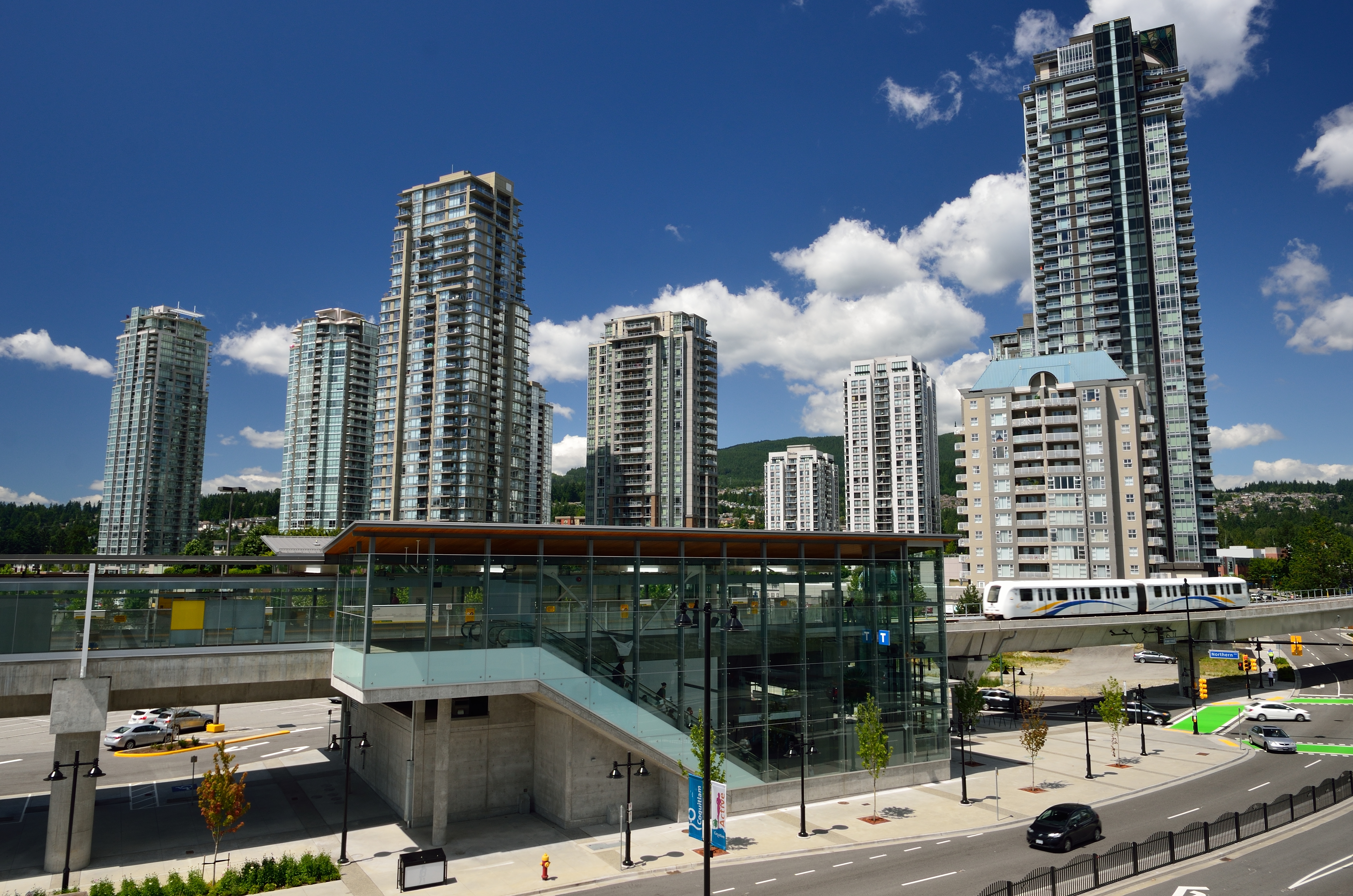 Exterior shot of Coquitlam's Lincoln station on the Millenium Line.